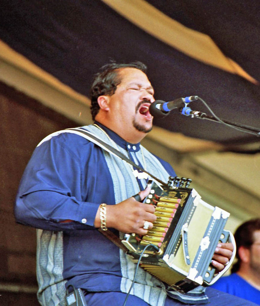 Beau Jocque at the New Orleans Jazz & Heritage Festival